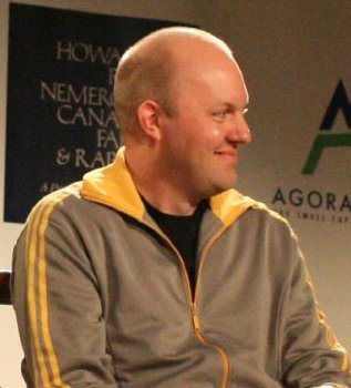 Co-founder of Netscape Communications Corporation, Marc Andreessen at the Tech Crunch40 conference.